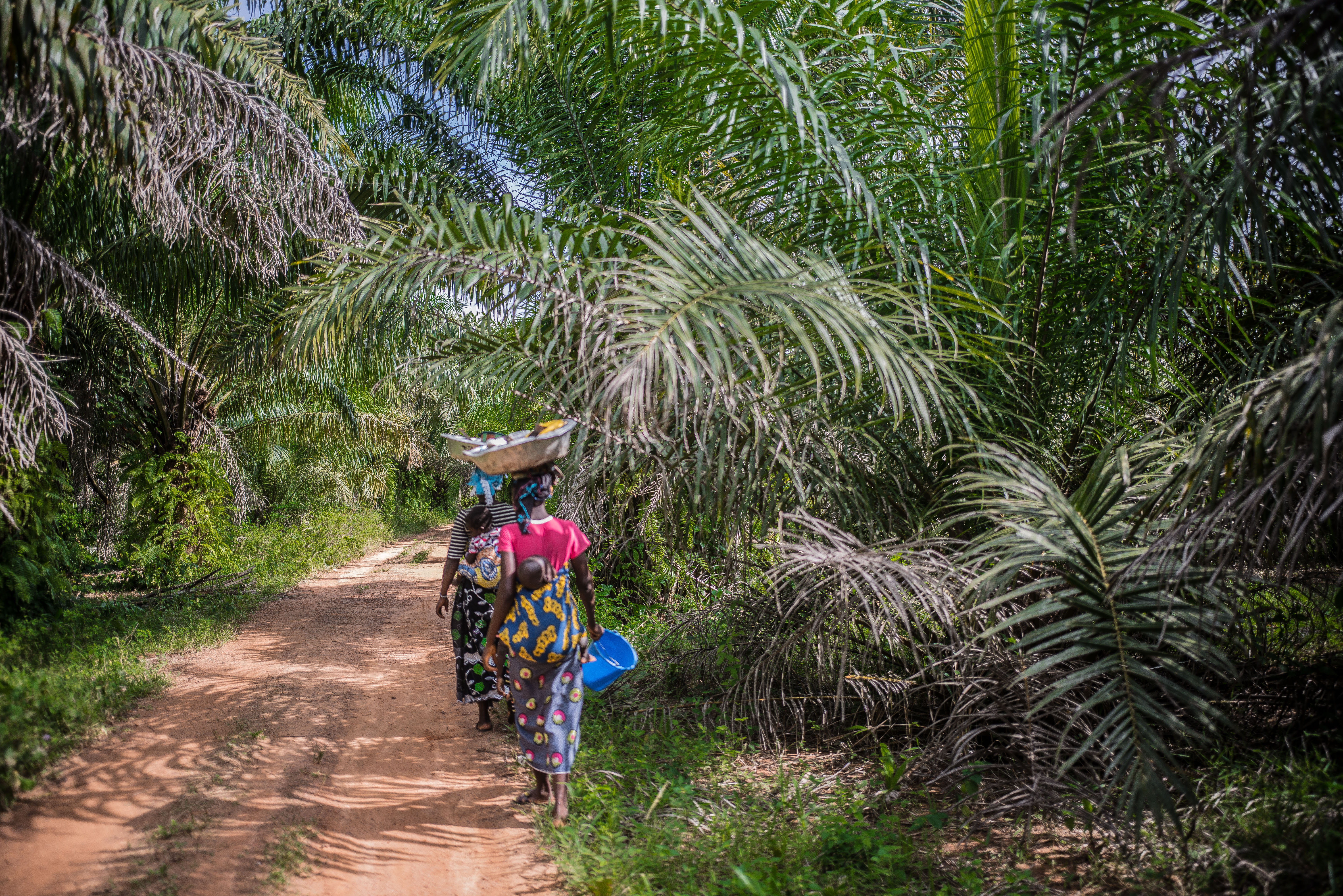 This is an image with the theme "Africa on the Move or Transport" from: Ivory Coast